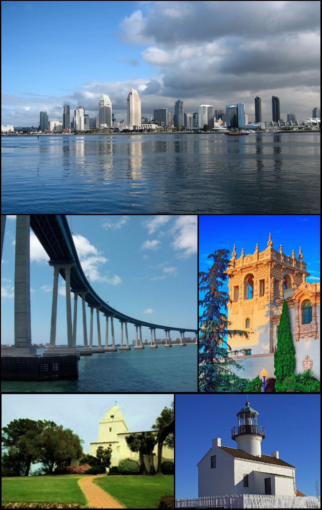 Montage of San Diego pictures on Commons